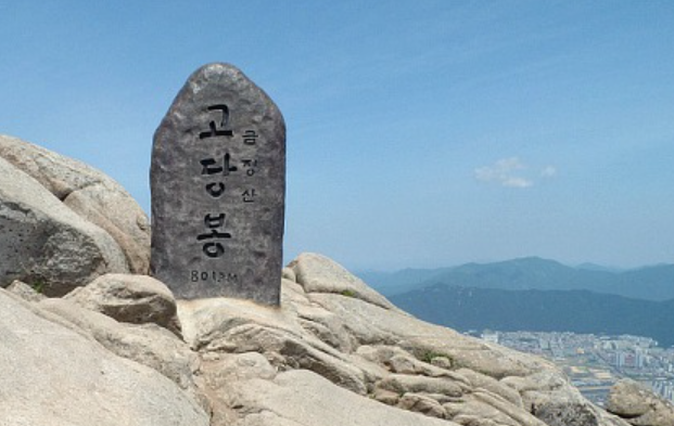 Geumjeongsan Mountain